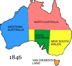 File created by Astrokey44. He suggested that I use it for the eveolution of territories of Australia. Based on Chuq's GNU maps.